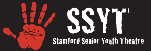 The Main logo image for stamford senior youth theatre.